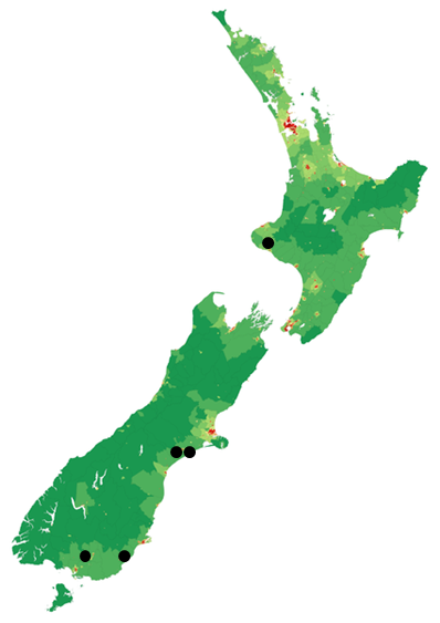 This is a map of Hokonui frequencies, and population density.